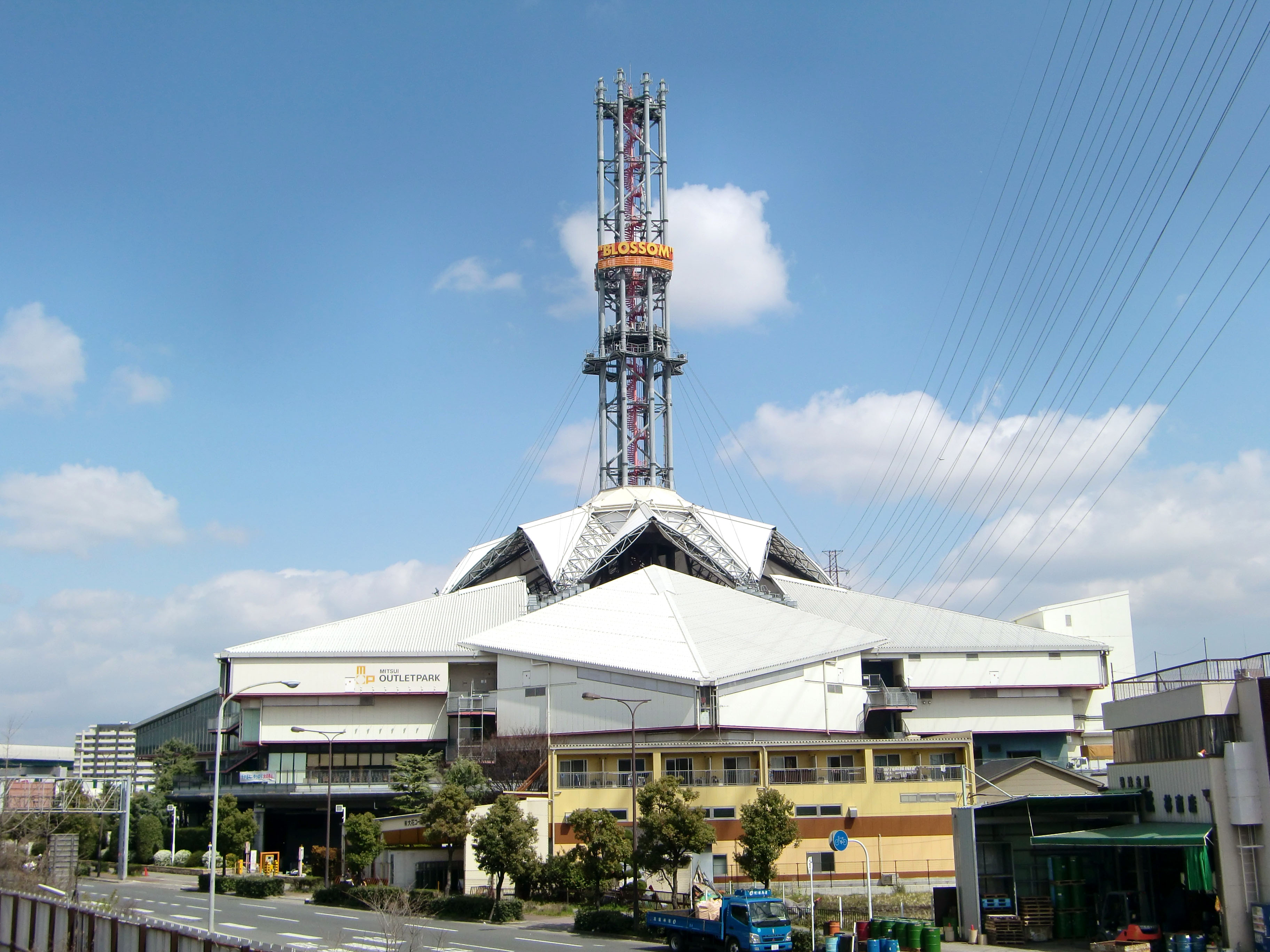 MITSUI OUTLET PARK OSAKA TSURUMI,2-7-70 Matta-Omiya Tsurumi-ku Osaka-City Osaka Japan.